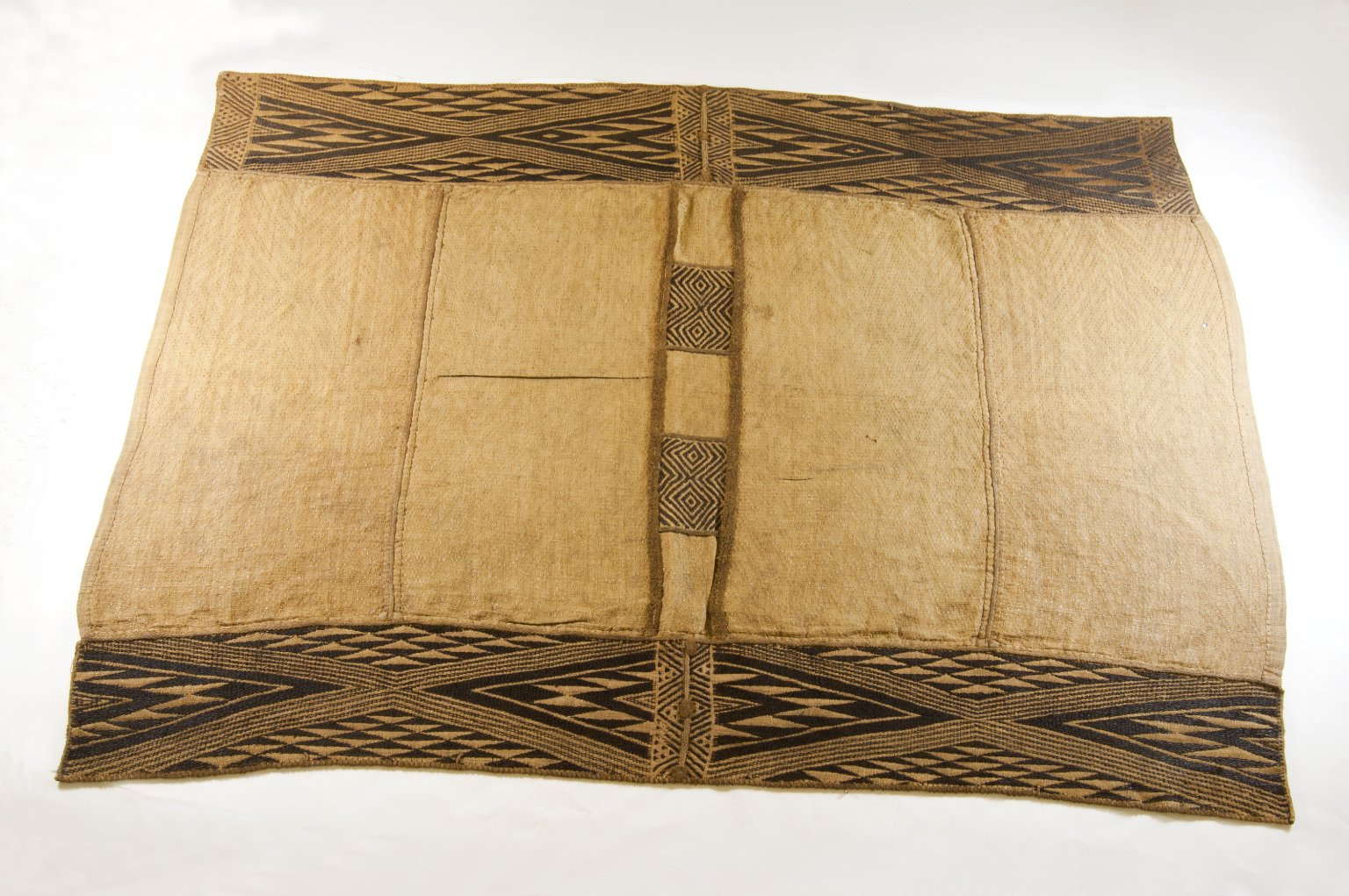 Raffia Cloth